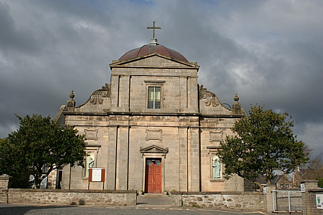 St Thomas Church This is Keith's Roman Catholic church. It was built in 1831-2, and the design is said to be based on the church of Santa Maria degli Angeli in Rome. Inside the church is a painting, "The Incredulity of St Thomas" by François Dubois, gifted by King Charles X of France.